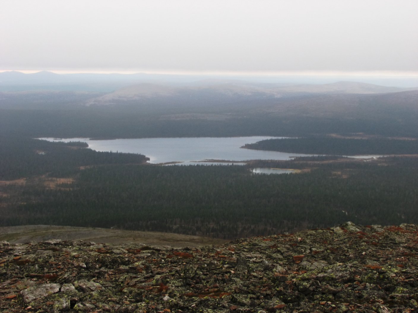 Luirojärvi lake seen from top of Sokosti.